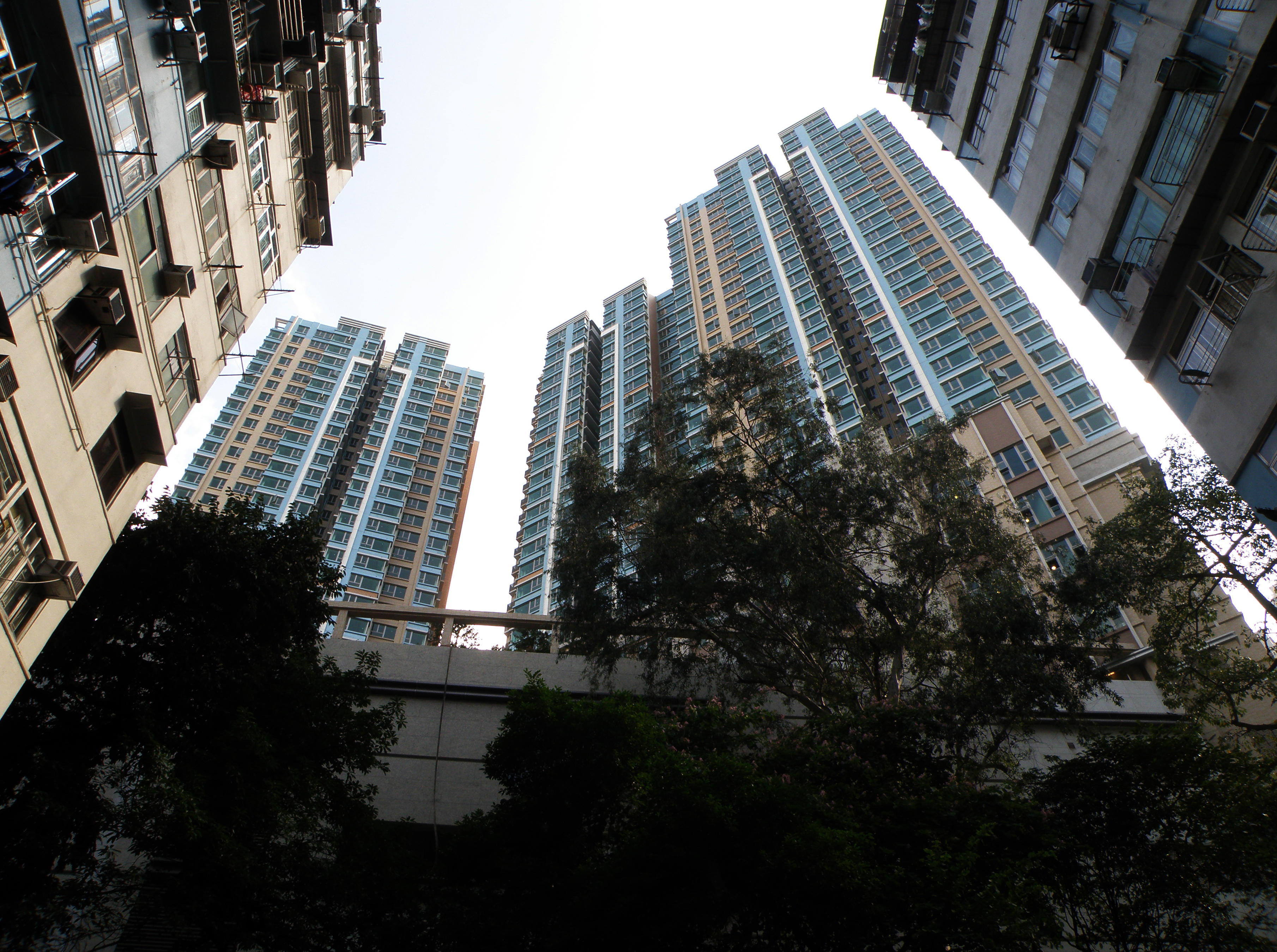 The Tanner Hill in North Point, Hong Kong.